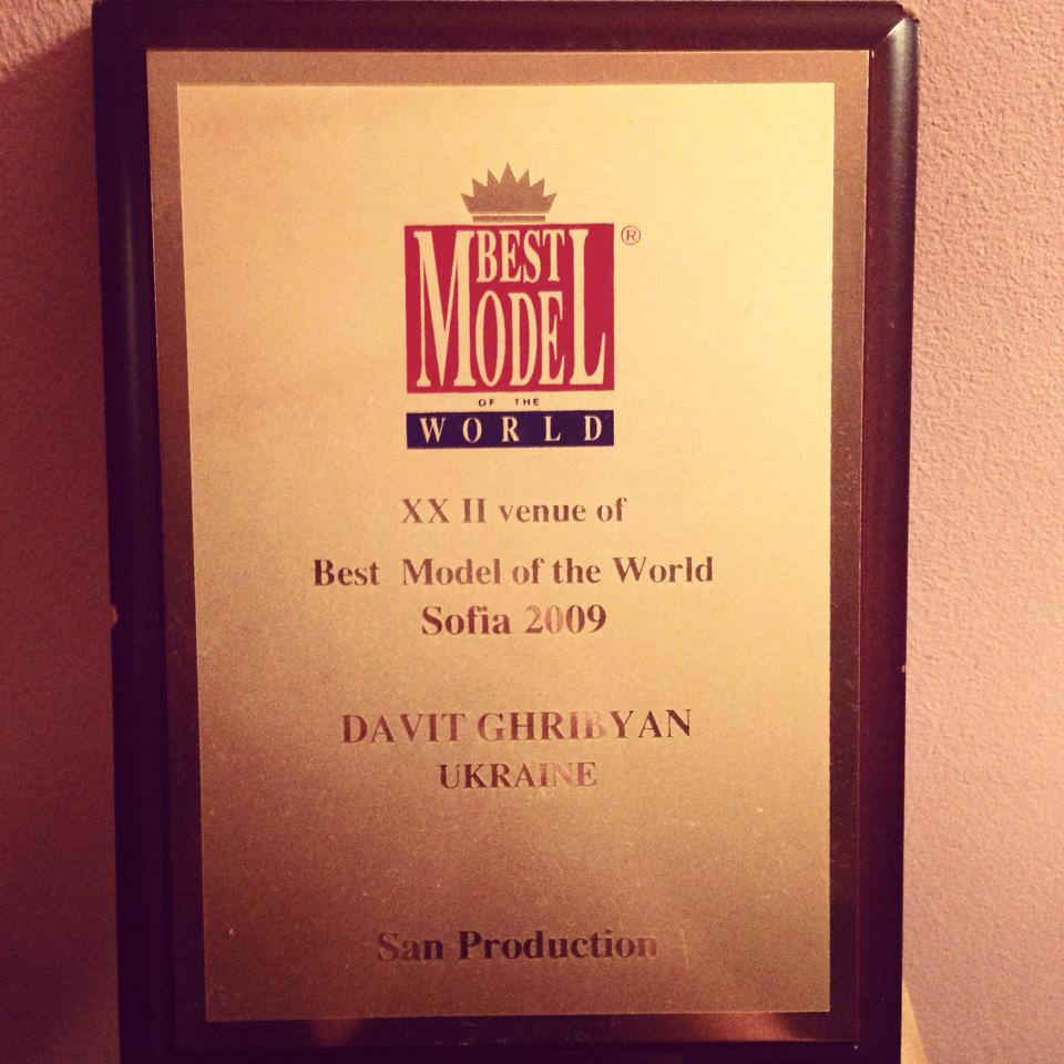 certifikate